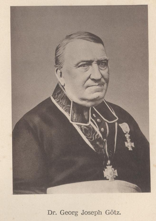 Georg Joseph Götz, Domdekan in Würzburg, Bayerischer Landtagsabgeordneter (1802-1871)